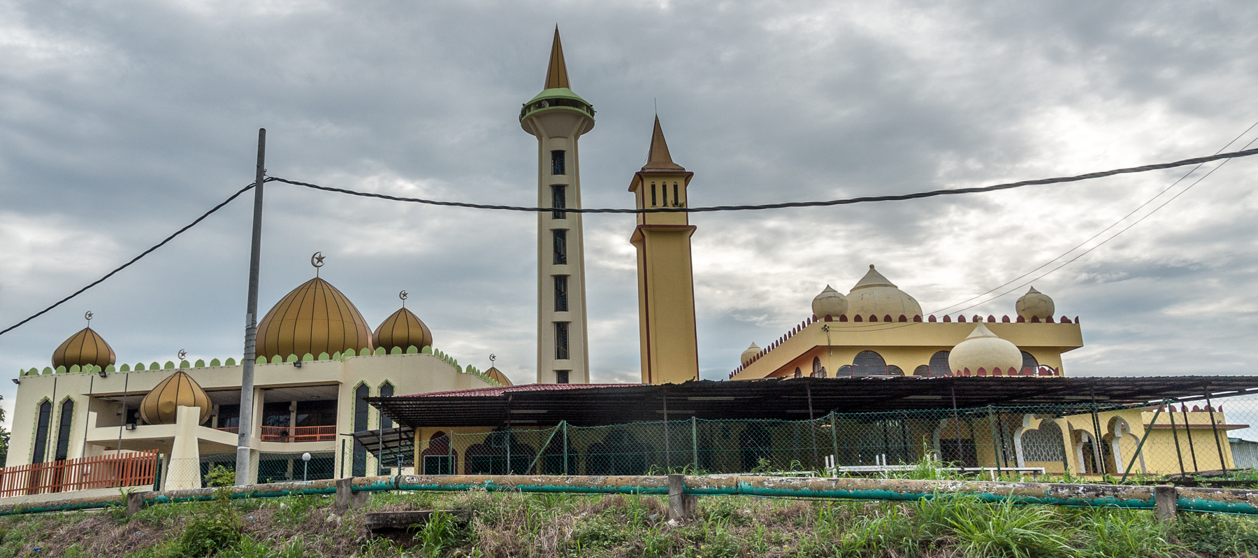 Kunak, Sabah: Masjid Datuk Zainal Gunong